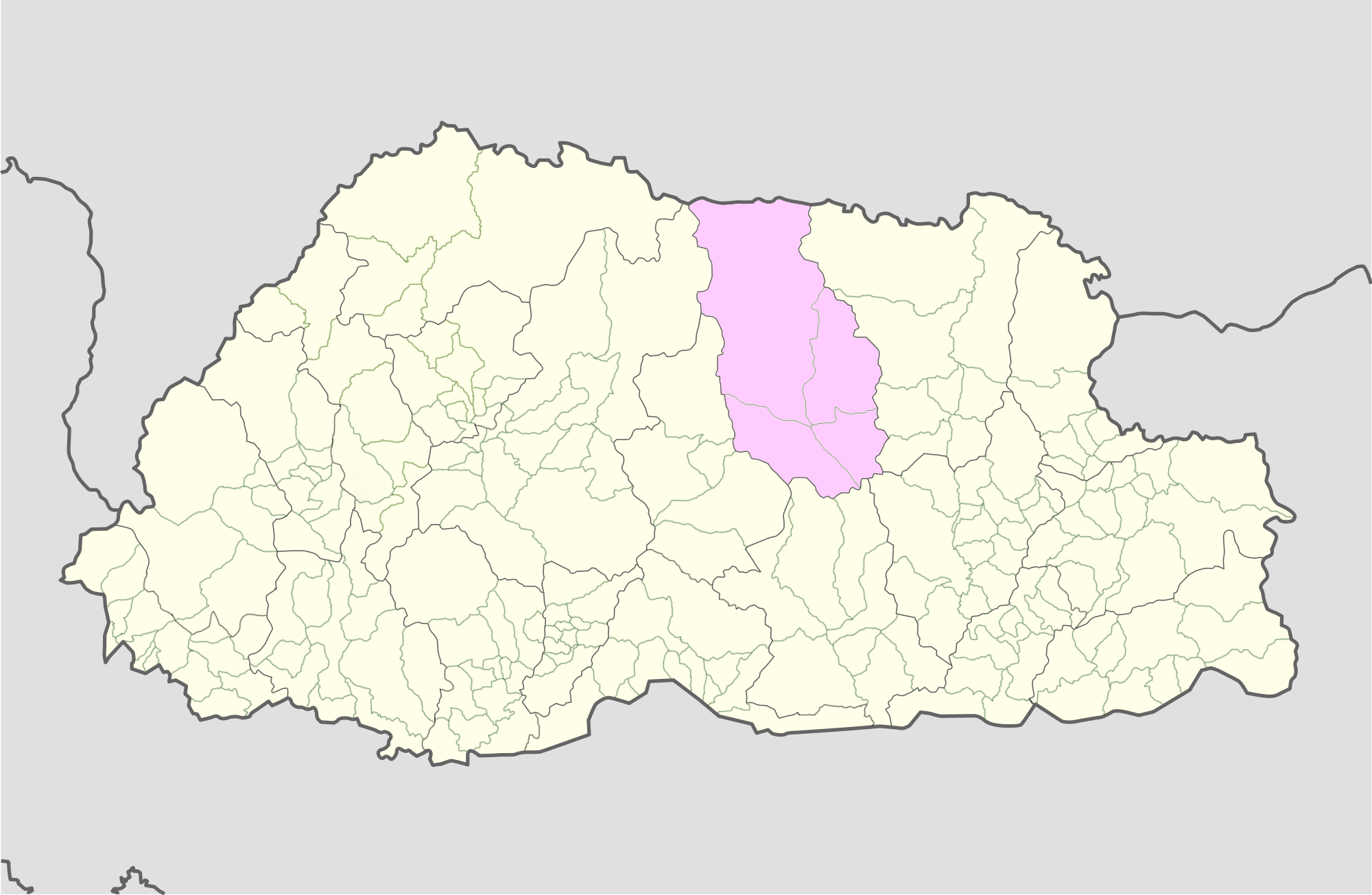 Bumthang Bhutan location map